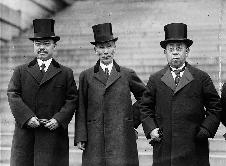 Left to right; Baron Shidehara, Admil. Katō, Prince Tokugawa, 11/3/1921.